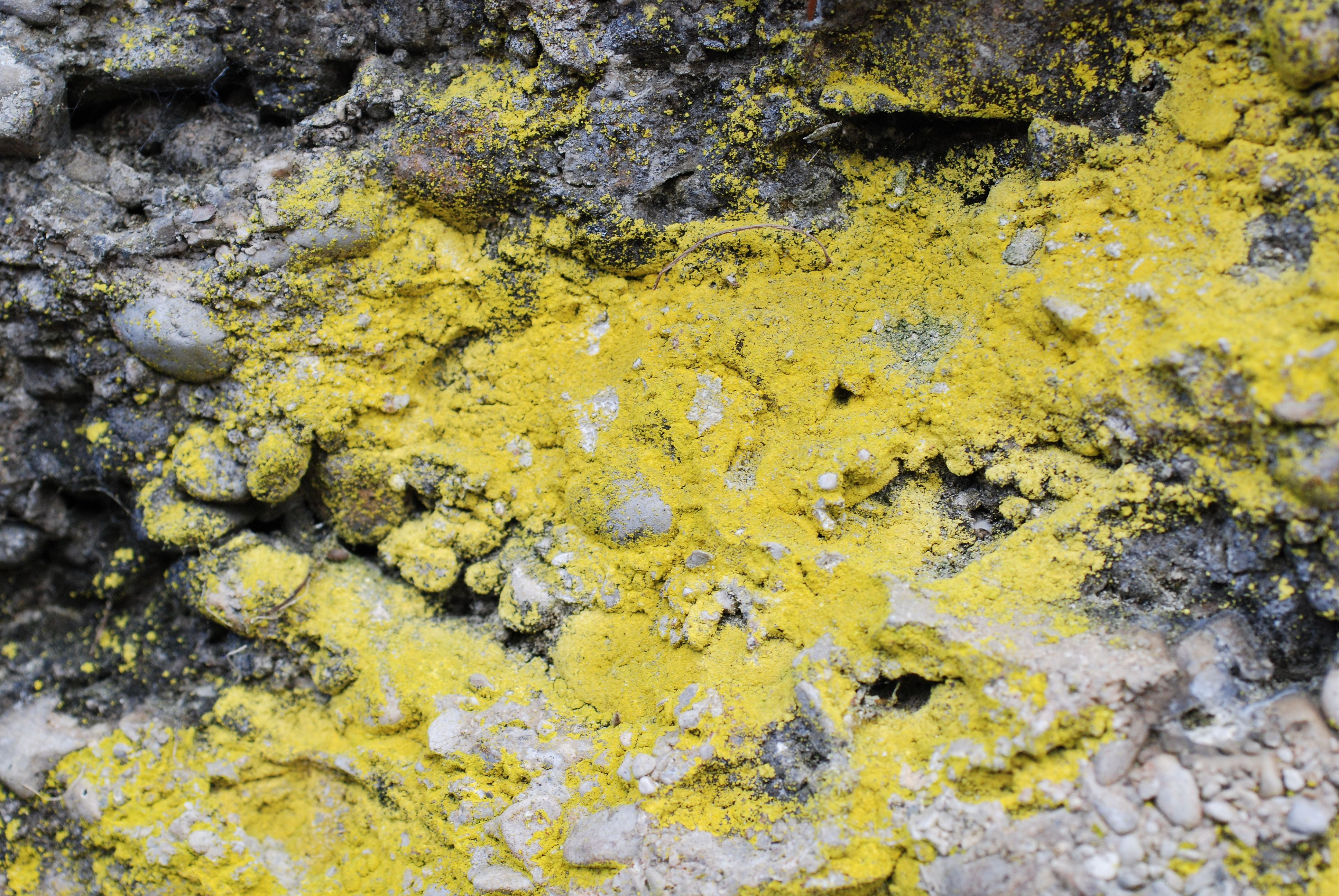 Caloplaca chrysodeta, Rinnende Mauer, Upper Austria, Austria